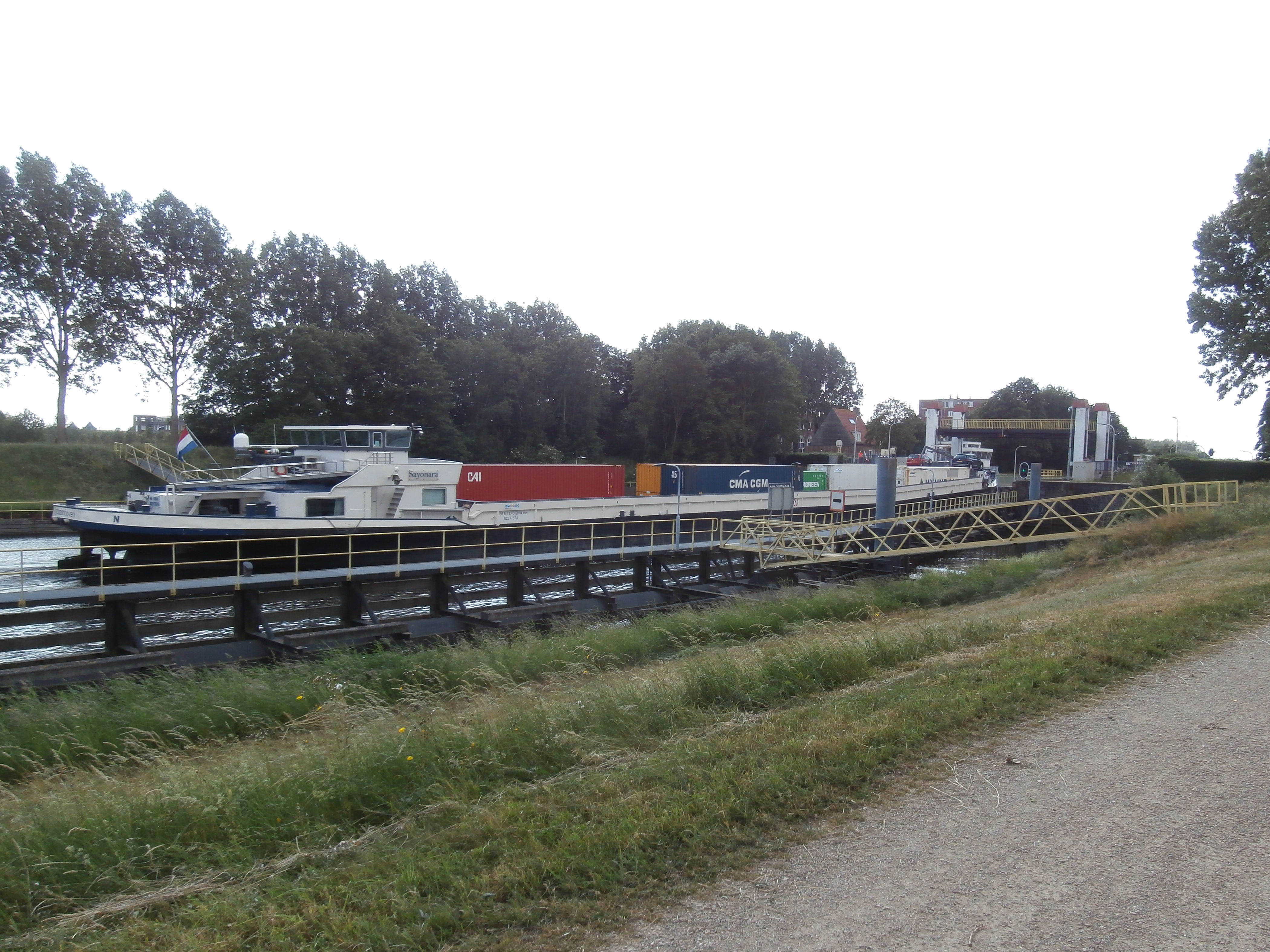 A ship with containers enters the Engelen Lock in the Dieze from the south. The lift bridge is up.